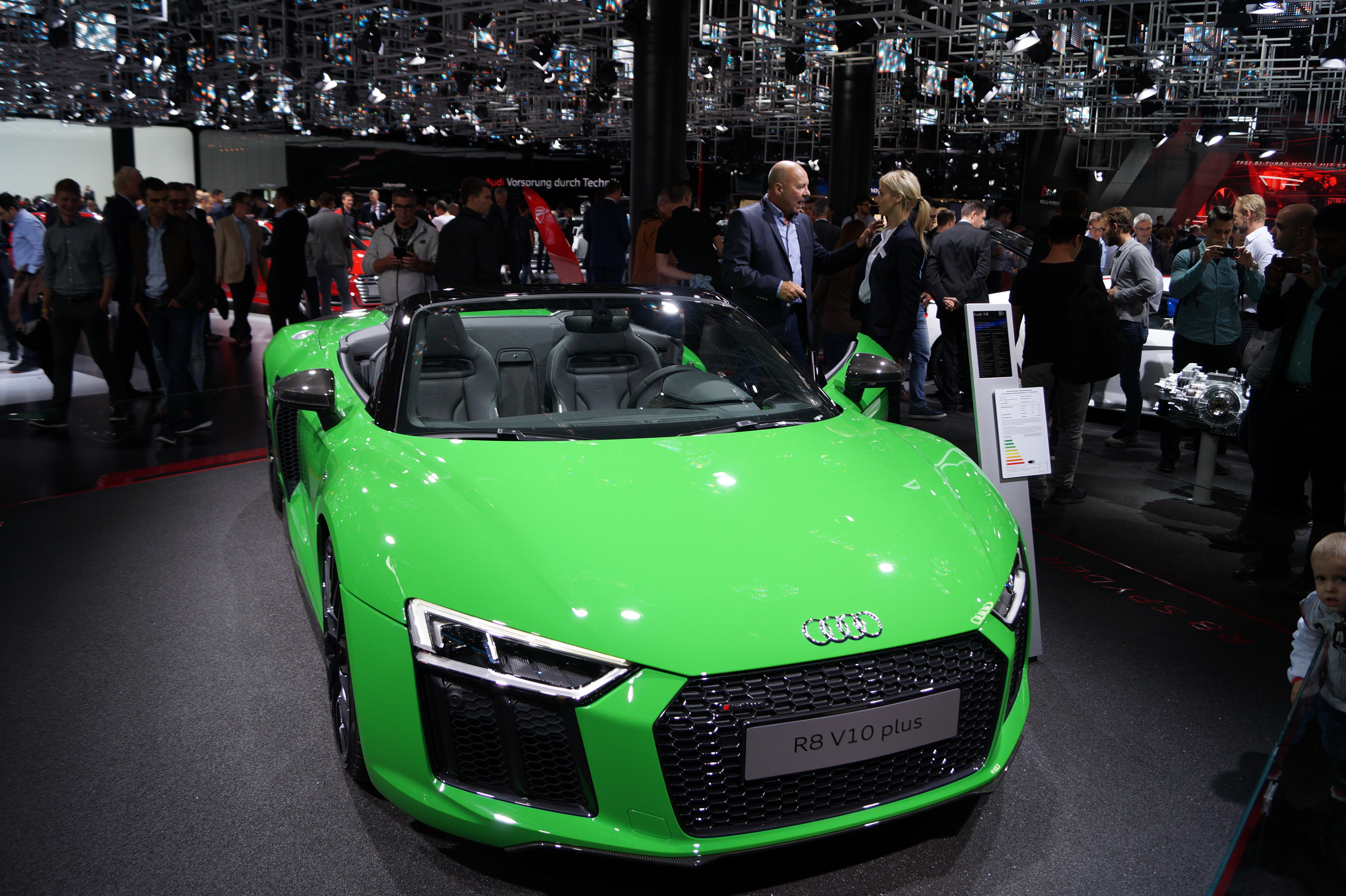 Audi at IAA 2017